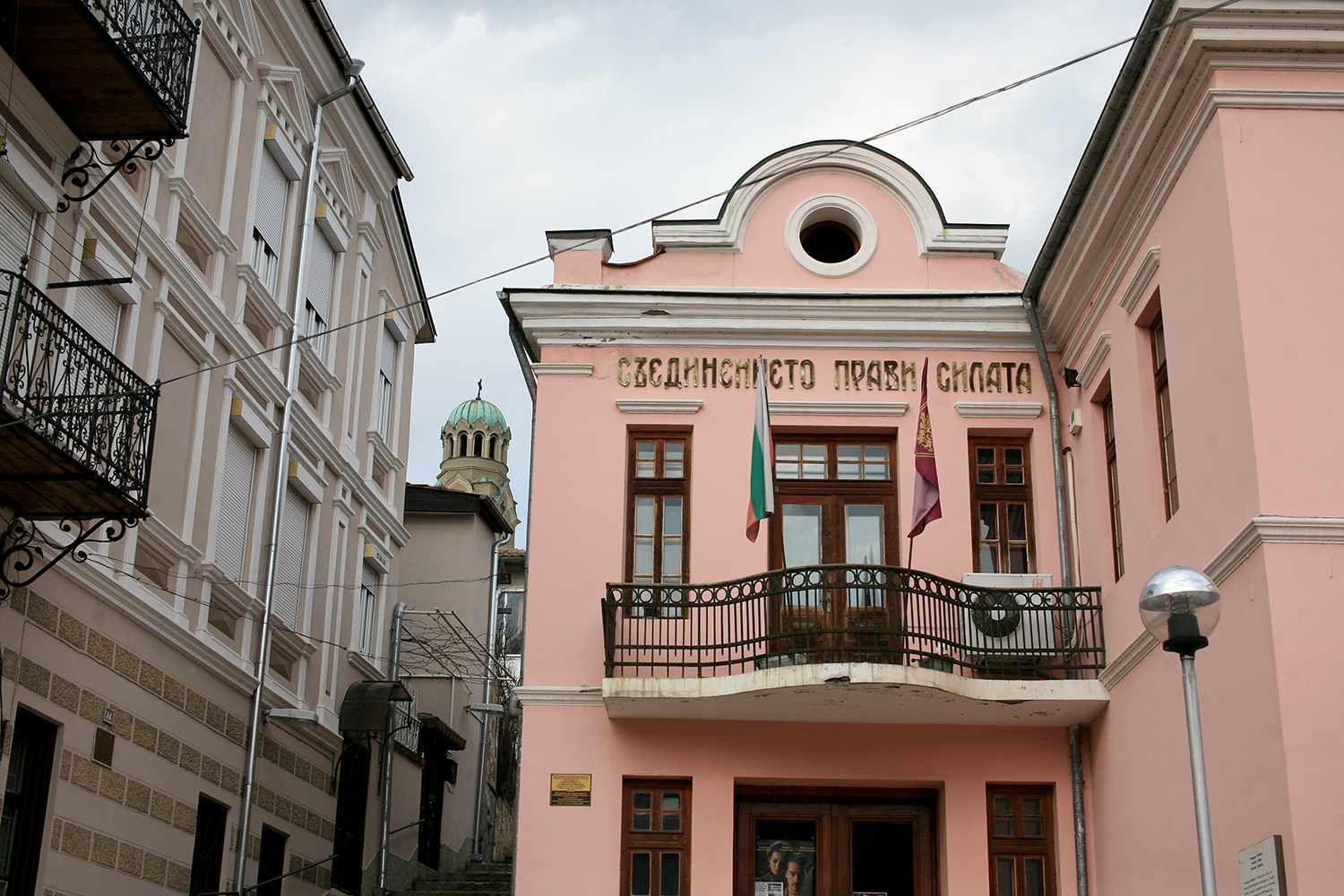 Veliko Tarnovo, Bulgaria